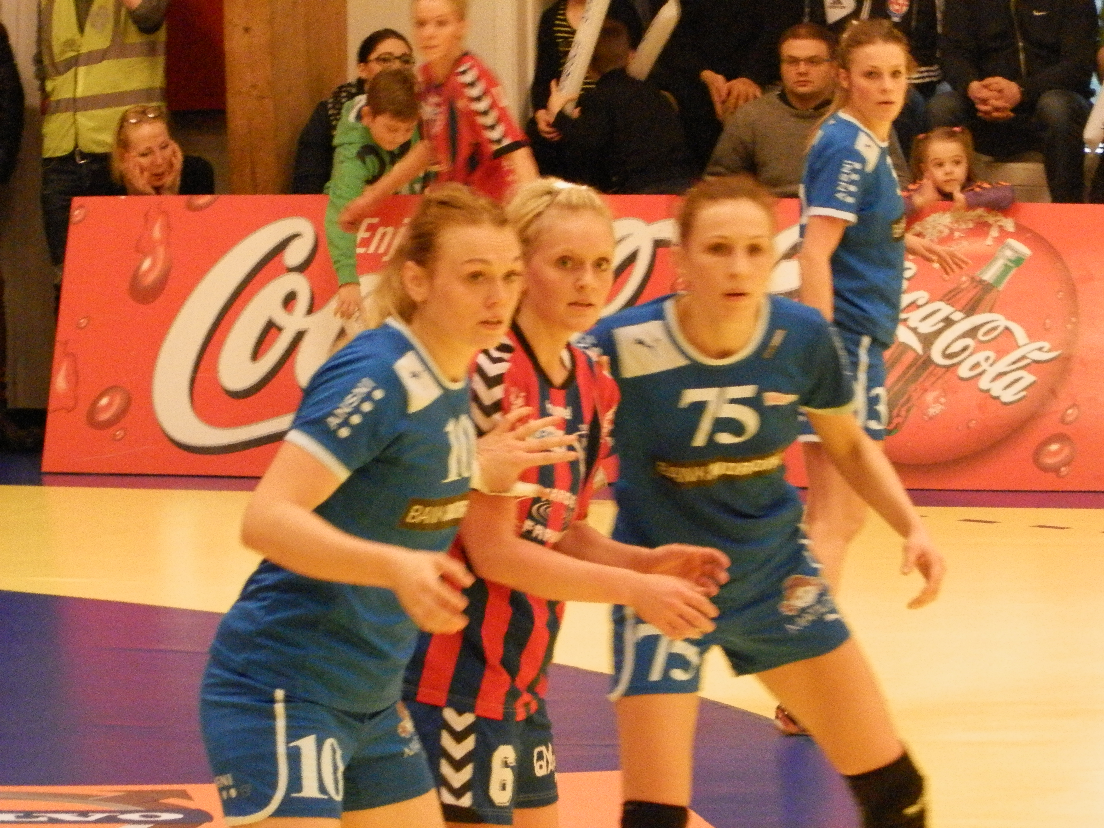 The women's handball final in the Faroe Islands Cup 2013 was played on 9 February 2013 in the sports hall on Nabb in Tórshavn, Faroe Islands. The final was between VB from Vágur and Neistin from Tórshavn. Neistin won the final 27-24. Føroyskt: Steypafinalan 2013 hjá kvinnum í hondbólti millum VB og Neistan varð leikt í Høllini á Nabb (á Hálsi) í Havn hin 9. februar 2013. Neistin vann finaluna 27-24. The players of Neistin (in blue) on this photo: Marjun Danberg (10), Nicoleta Radu Hansen (75) and Ása Dam á Neystabø (3). The VB players are: Bára Krosslá Mortensen (6) and Rannvá Johannesen (2).